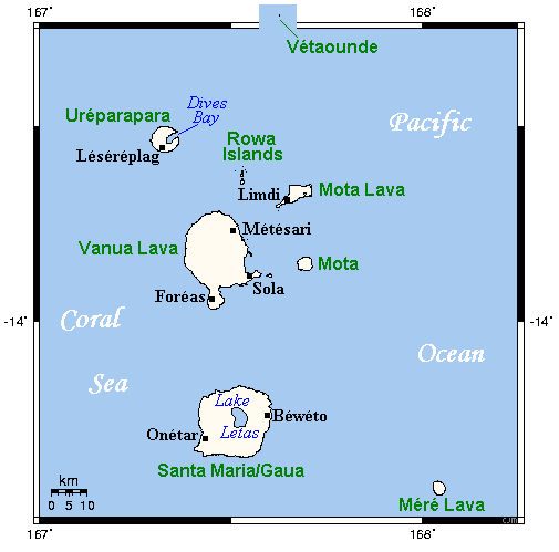 Banks- and Rowa-Islands, Vanuatu